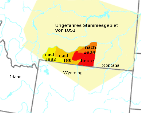 Tribal land of the Absarokee (Crow) Indians